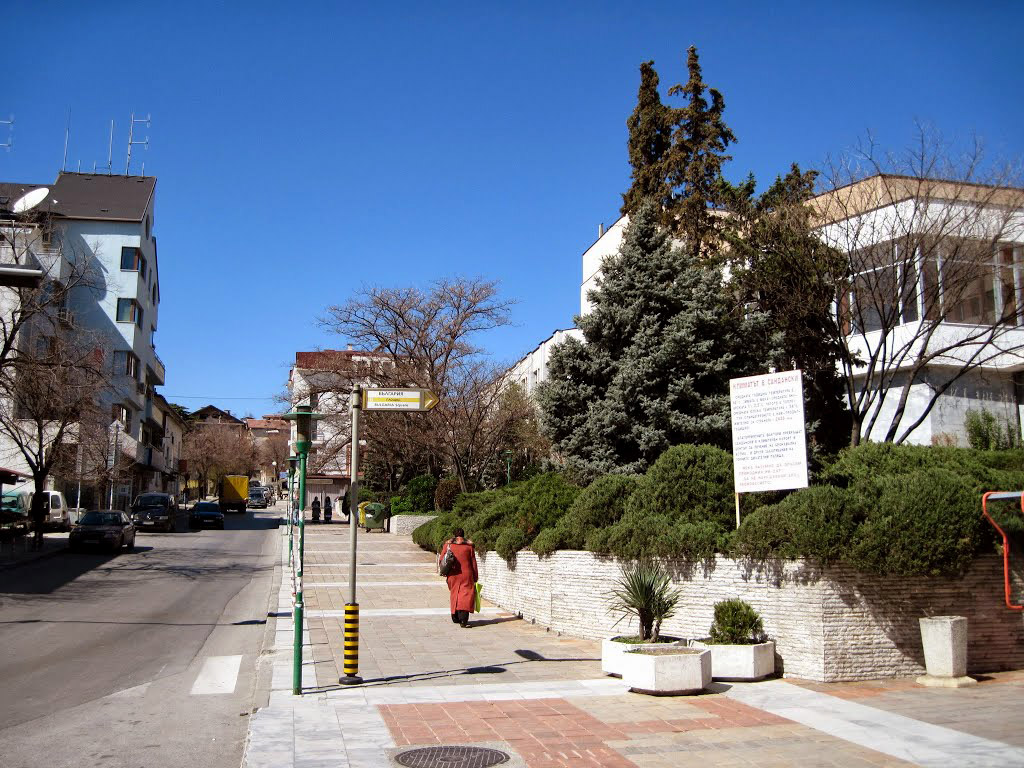 Sandanski streets,city centre.